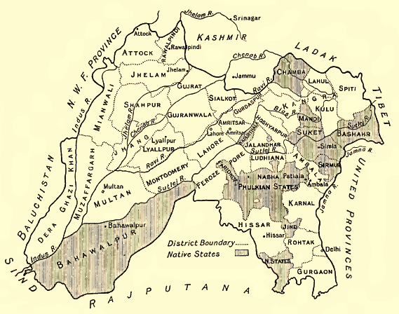 Map of the Districts and some Indian Princely States (Bahawalpur, Sirmur, Suket, Chamba etc.) of the Punjab, 1911